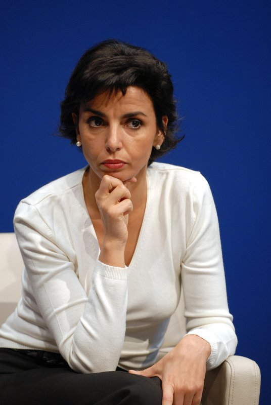 Rachida Dati on 23 april 2007.